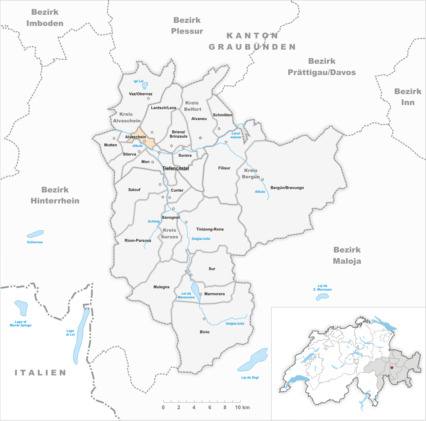 Municipality Alvaschein